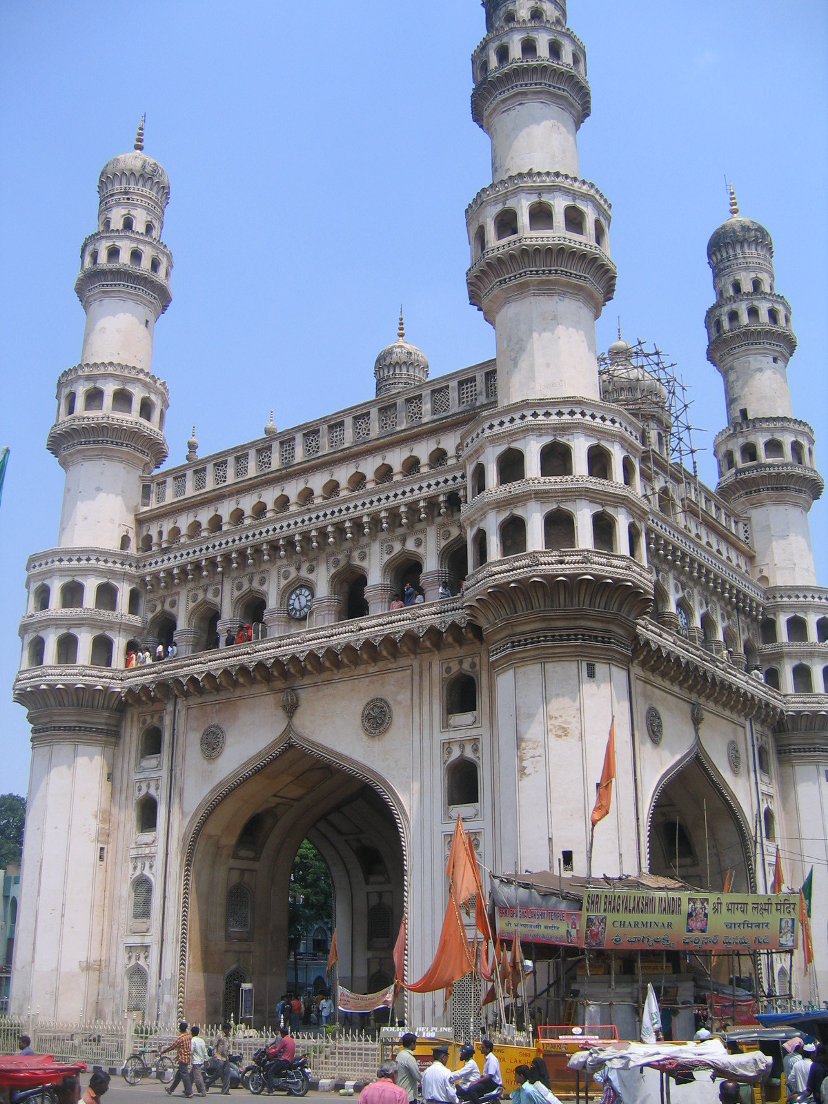 Charminar